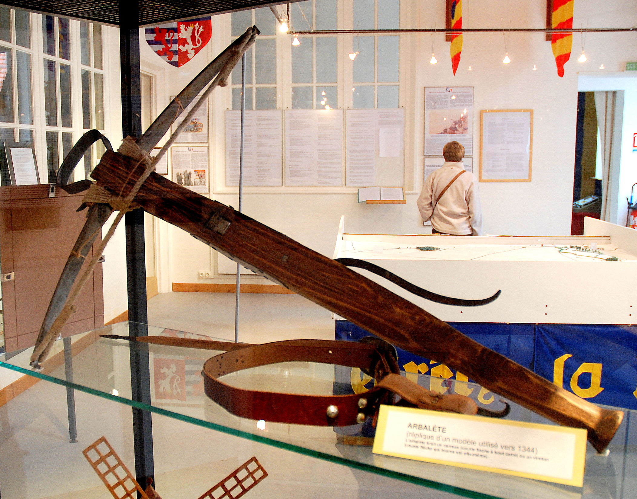 replica of a 14th century crossbow as it my be used at the Crécy battlefield